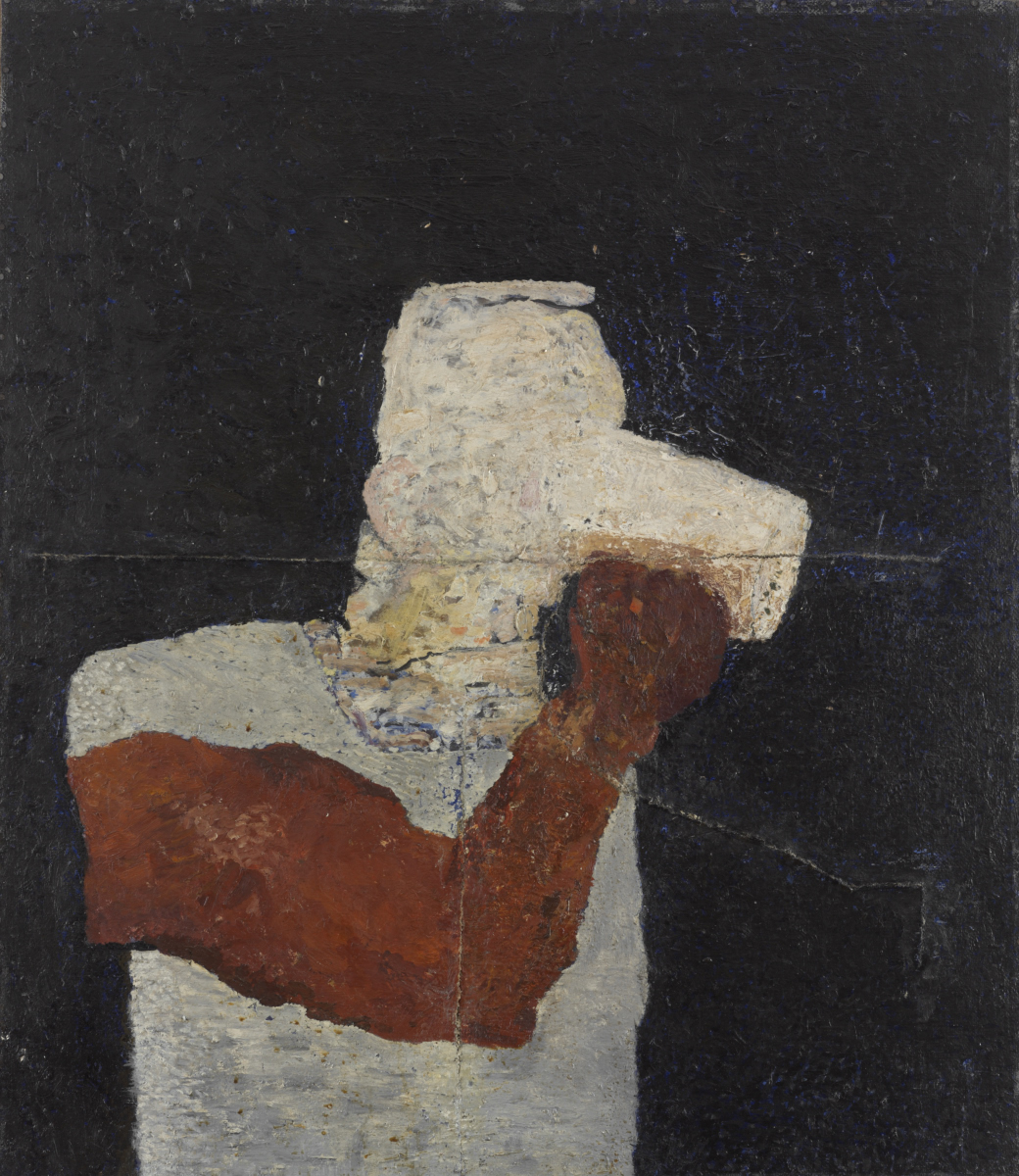 Muž s pivem, olej, plátno, 87 x 65 cm (1965)